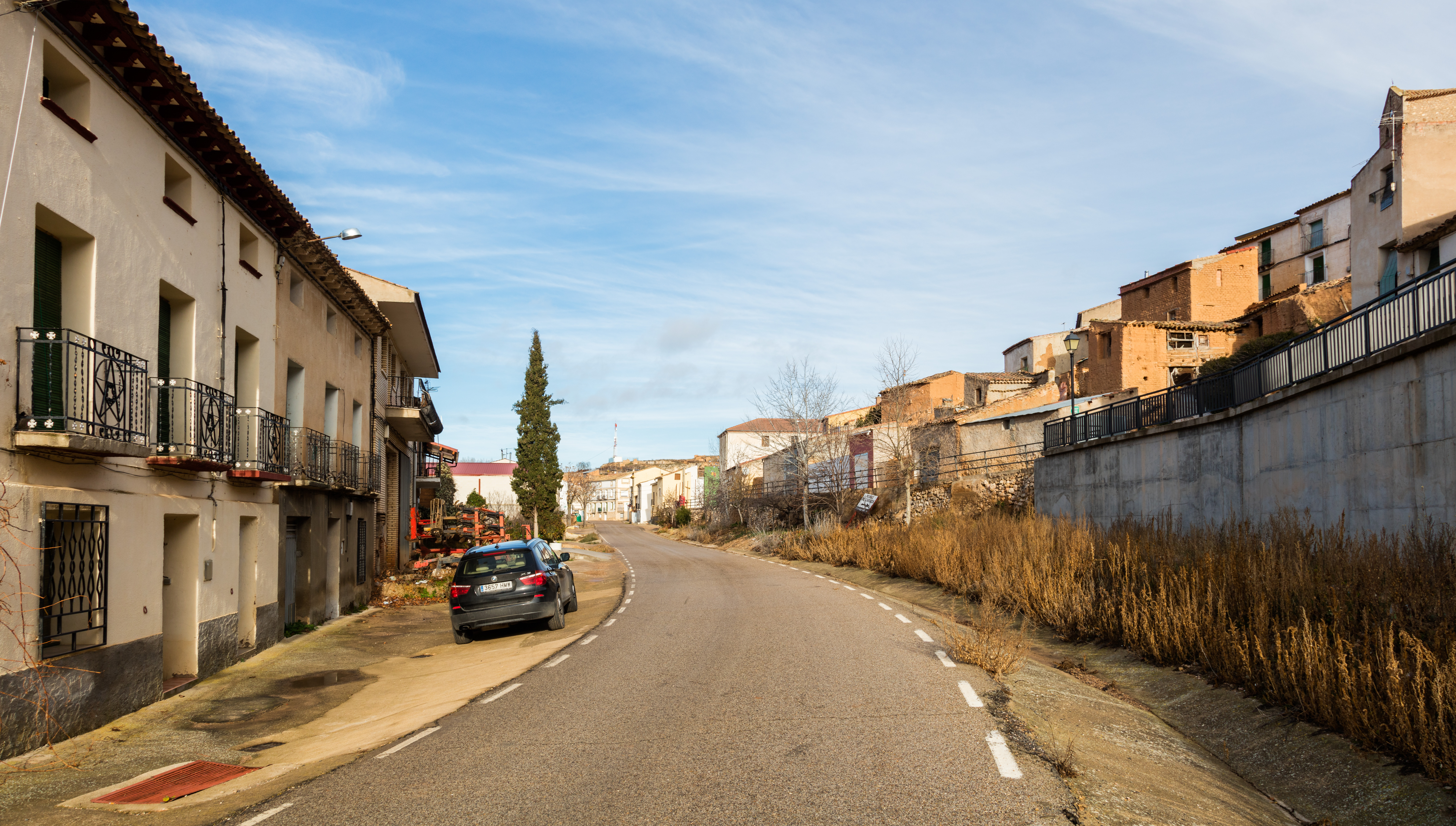 Cihuela, Soria, Spain